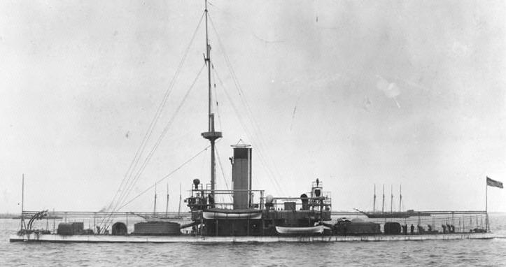 The USS Miantonomoh (BM-5).